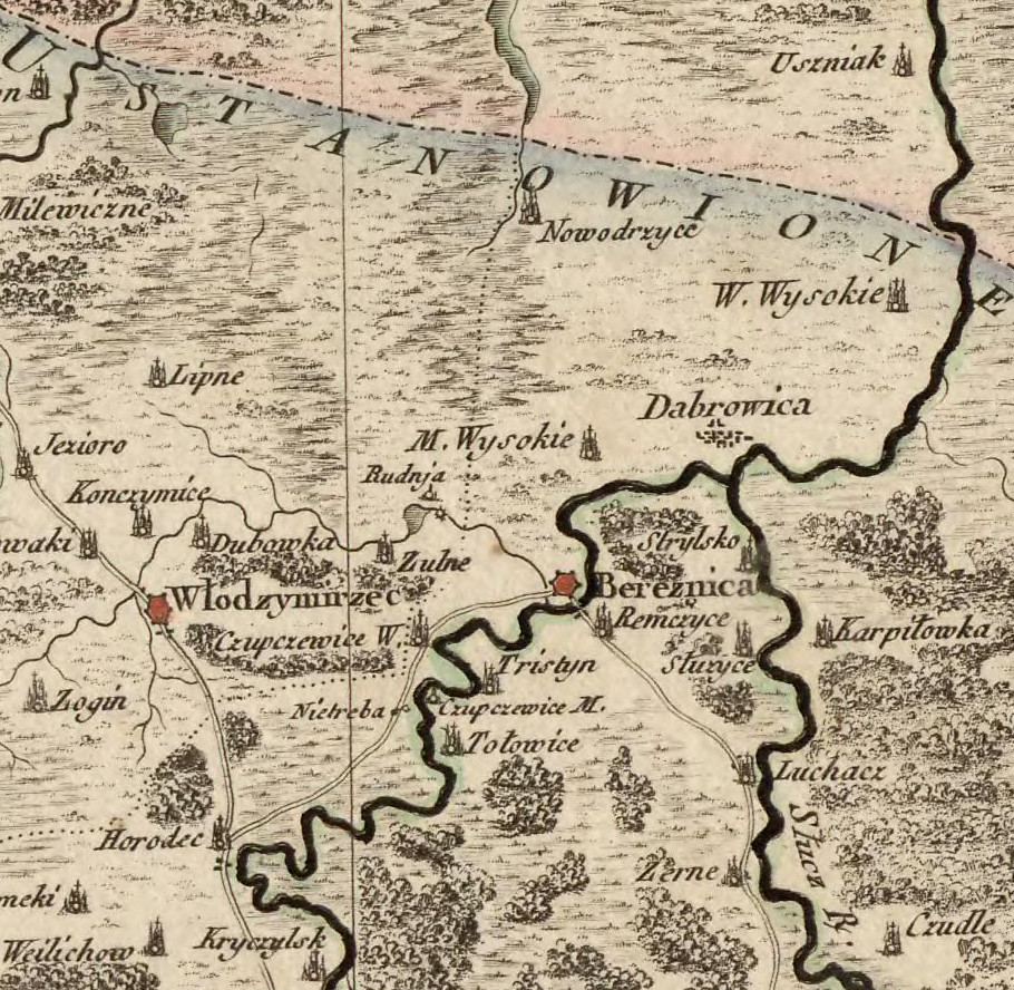 Zulnia on the map "Carte de la Pologne" by Giovanni Antonio Rizzi Zannoni, 1772.